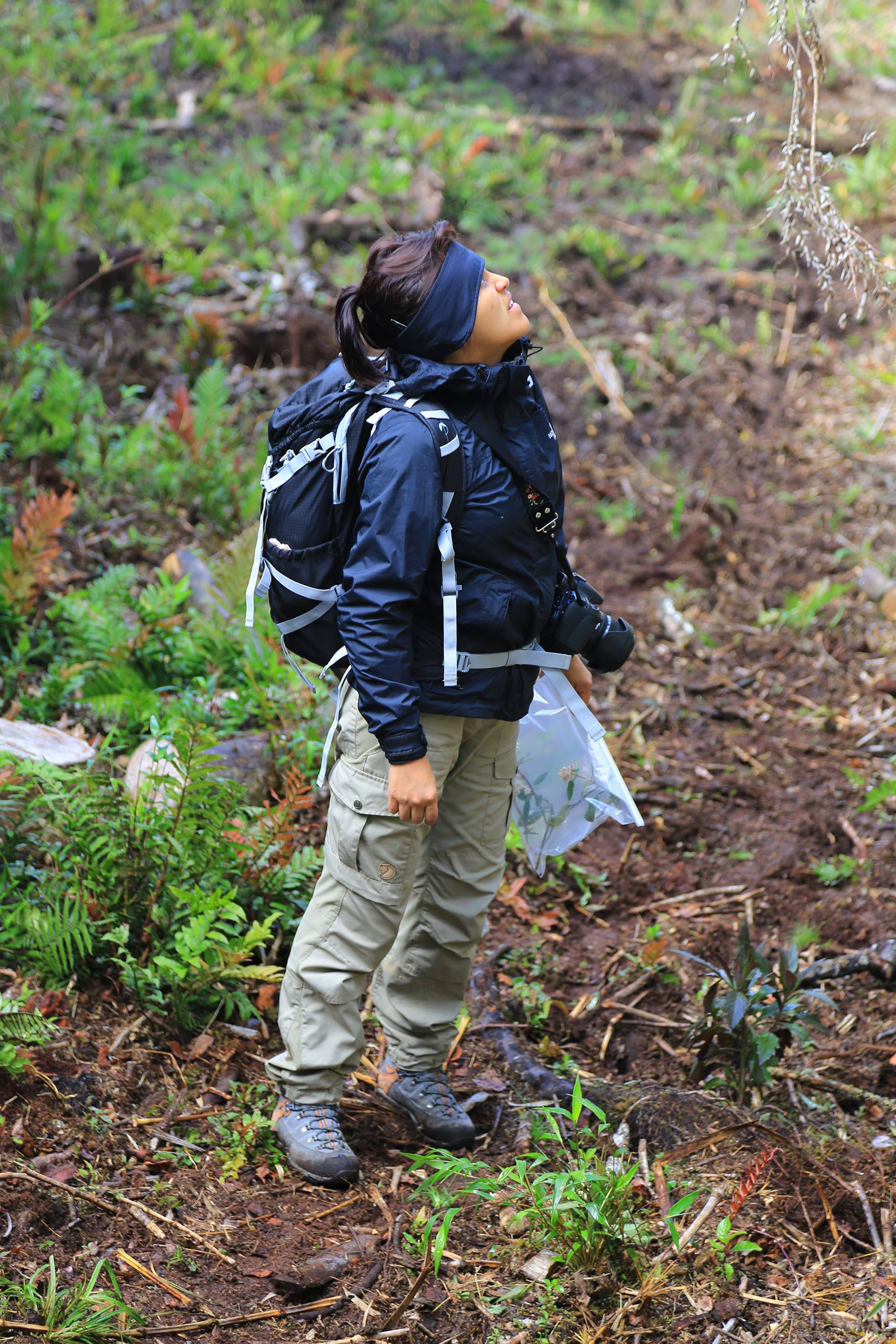 Fotografía de Narel Y. Paniagua Zambrana durante una de sus expediciones.